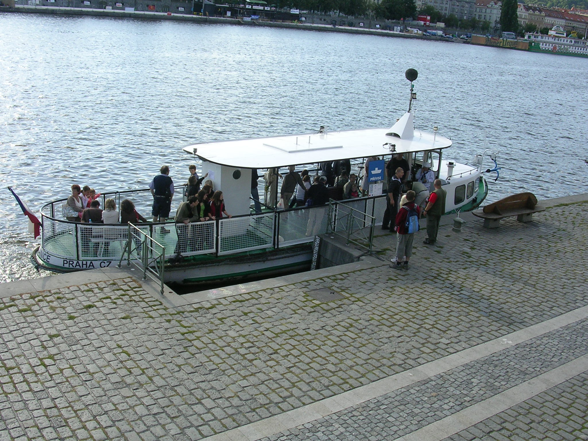 Ferry P5, Prague, the Czech Republic.